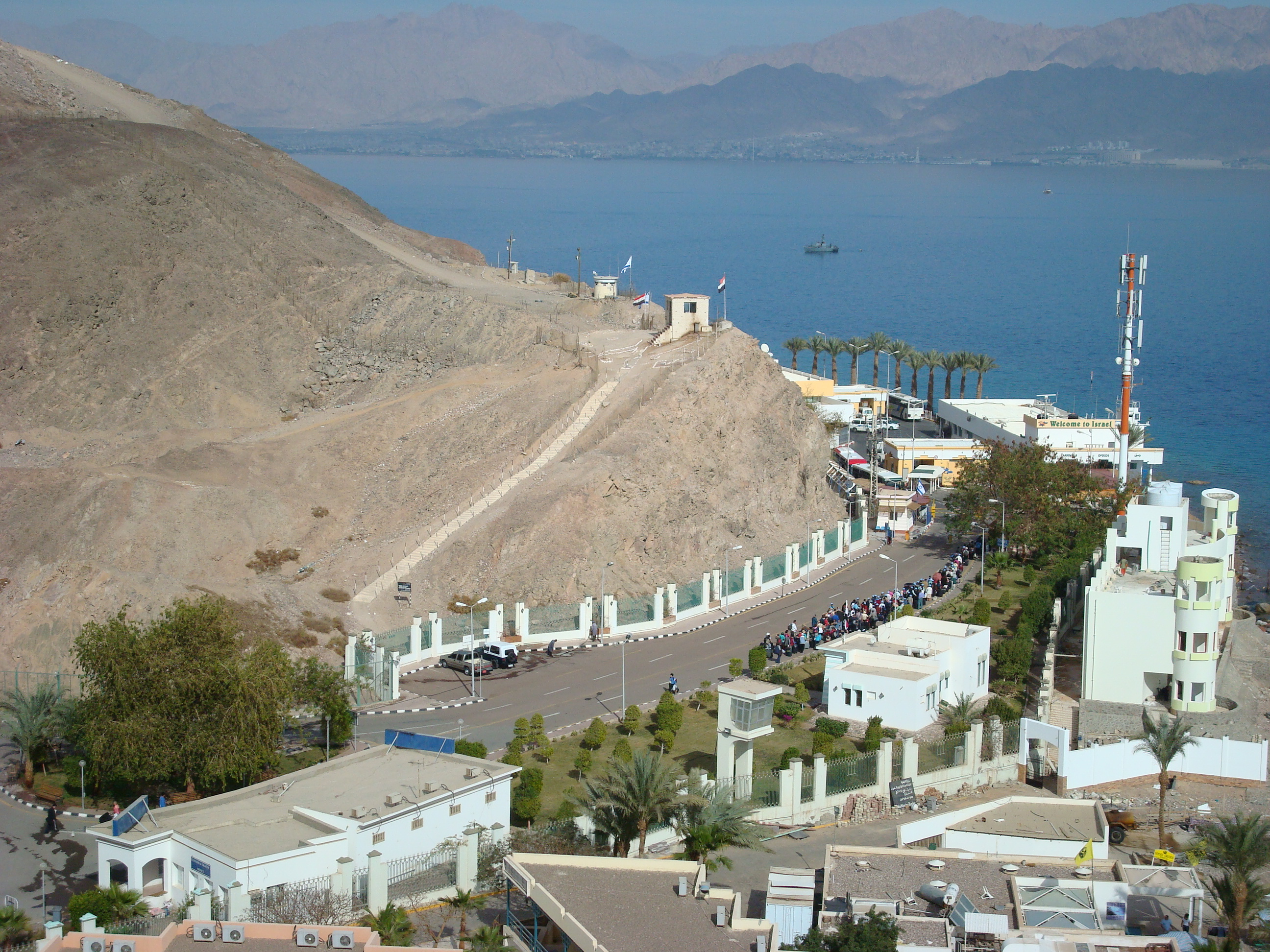 Egyptian side of the Taba border crossing to Israel.